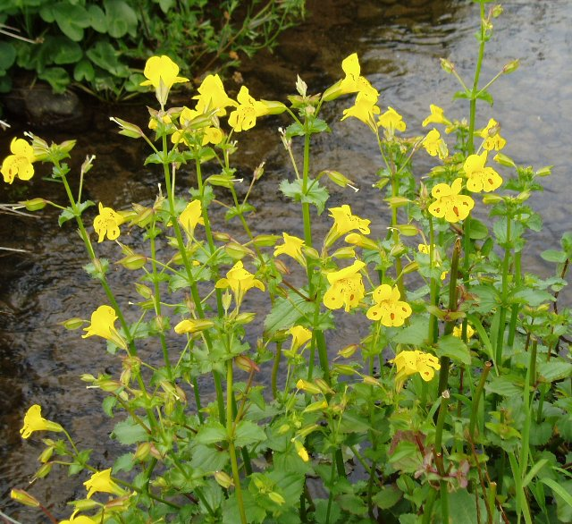 Blood-drop Emlets Its common name comes from the red spots on the flowers. The plant originated in Chile, and this is presumably a garden escapee.